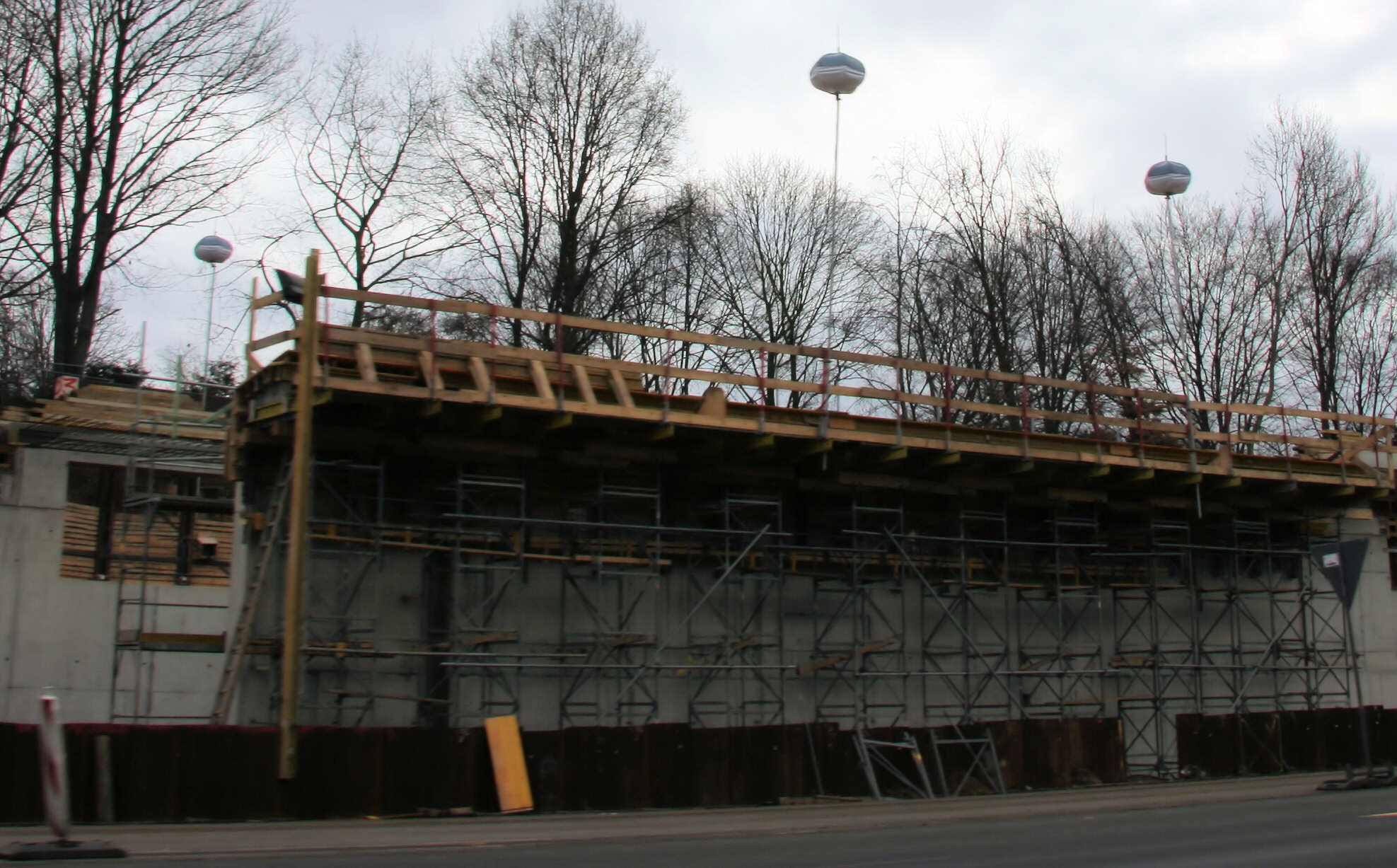 Lighting balloons on a construction site, motorway A1 in Köln, Germany